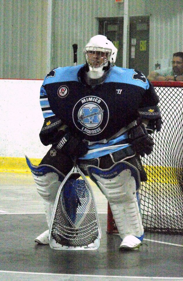 These images of Ontario Junior B Lacrosse Action action during the 2014 season are taken by Devan Mighton.